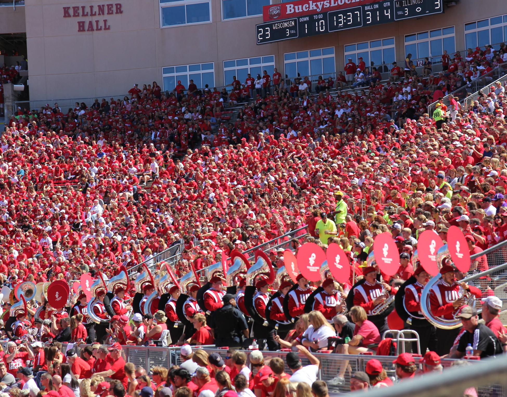 The "Tuba March" - tuba players on the University of Wisconsin Marching Band marching around Camp Randall Stadium. They are marching between the endzone seats.